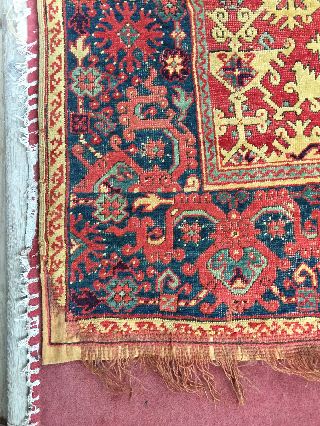 Lower left corner of a "Transylvanian" Lotto carpet from the Biertan fortified church in Transylvania, Romania, demonstrating unresolved corners. This feature is typical for rugs made in Anatolia.